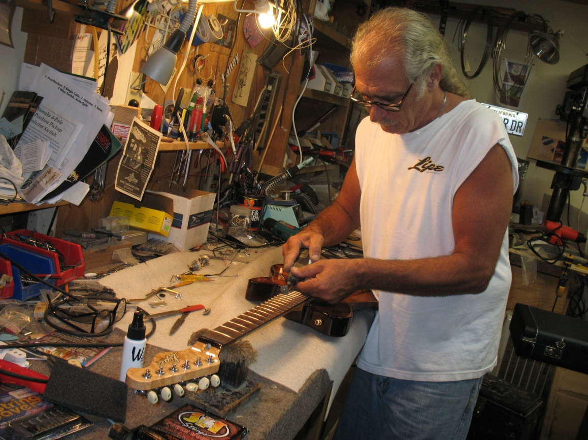 Mike Lipe working in the shop